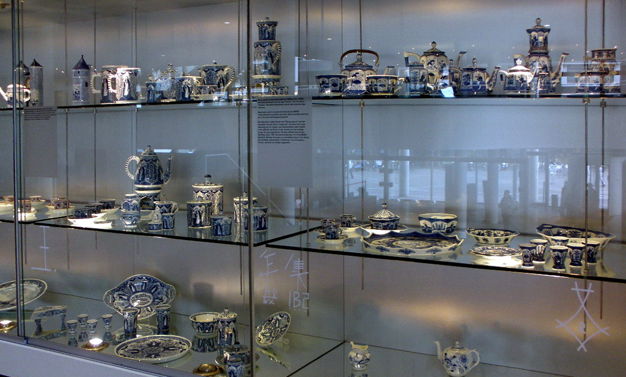 Chinese or Delft inspired tableware( Mosa, early 20th c) in the collection of Centre Ceramique, Maastricht, the Netherlands.